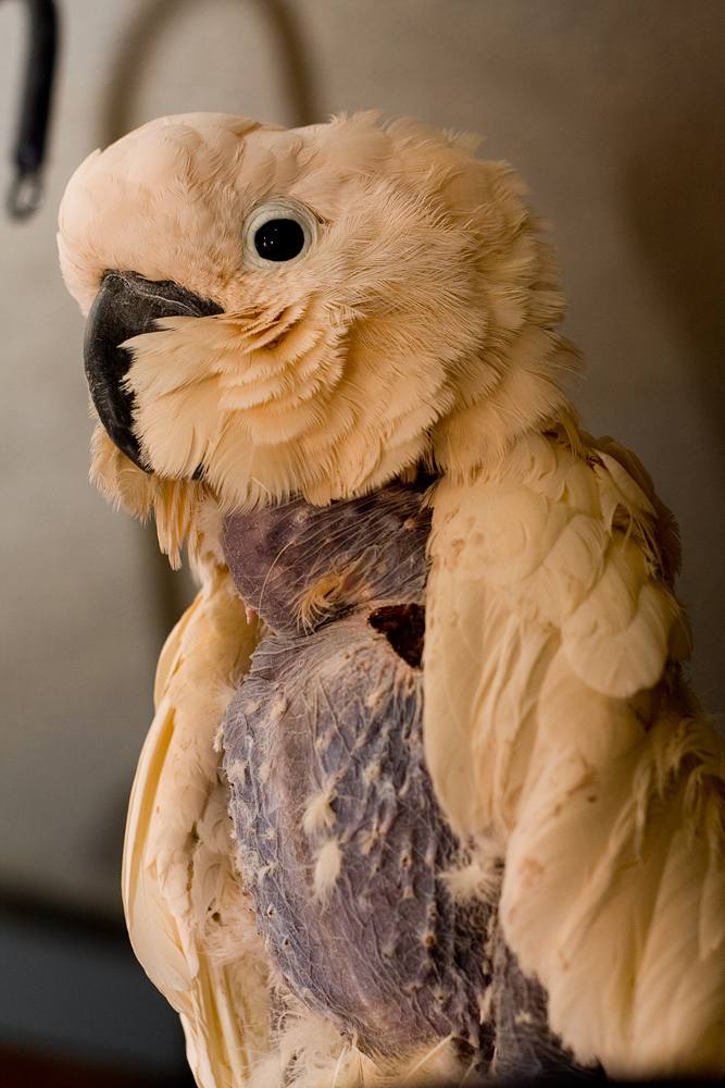 A feather plucked Salmon-crested Cockatoo (also known as Moluccan Cockatoo) at Birdline Canada, where it was receiving veterinary treatment.